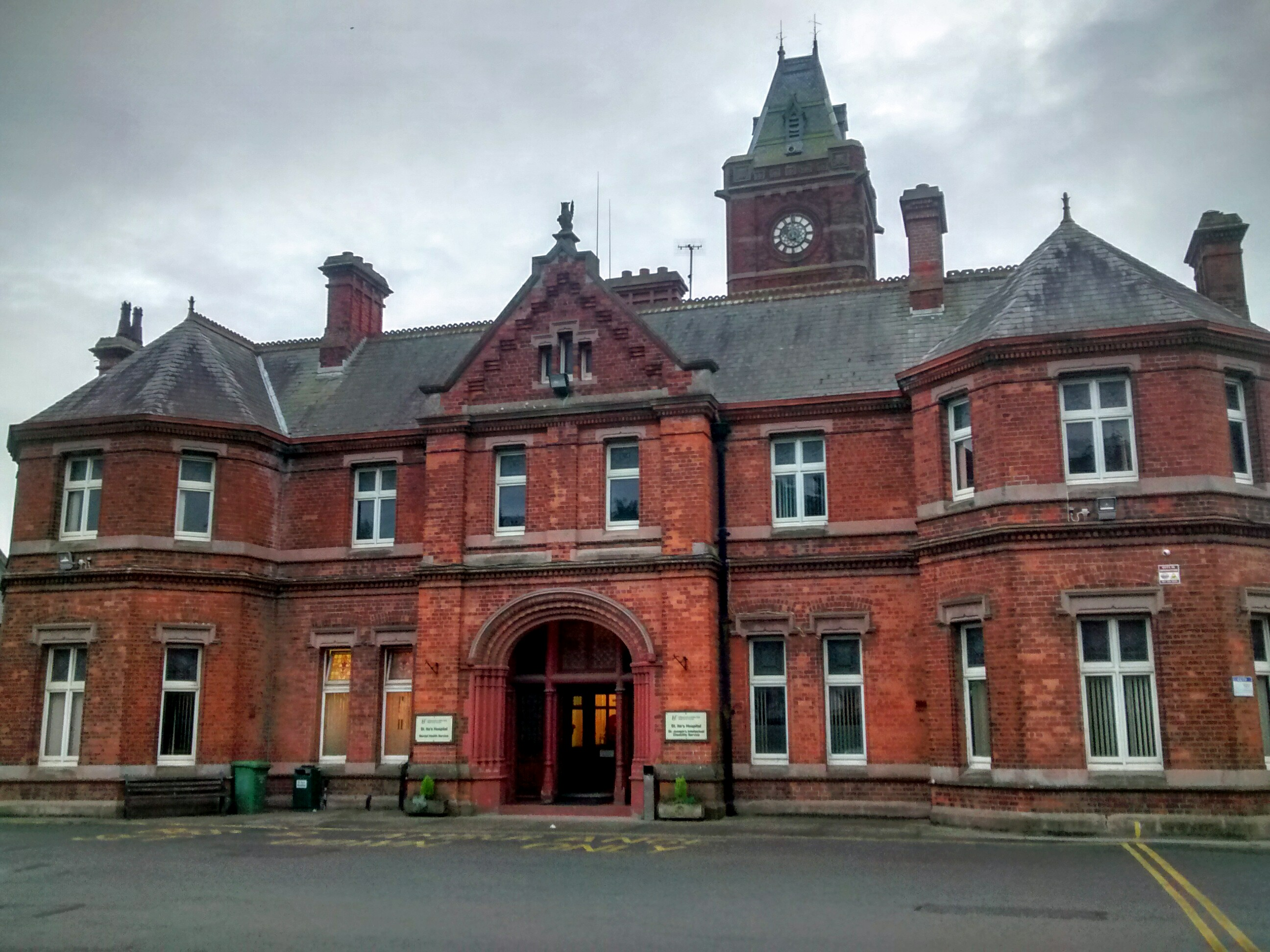 Main building of St. Ita's psychiatric hospital, Portrane, County Dublin